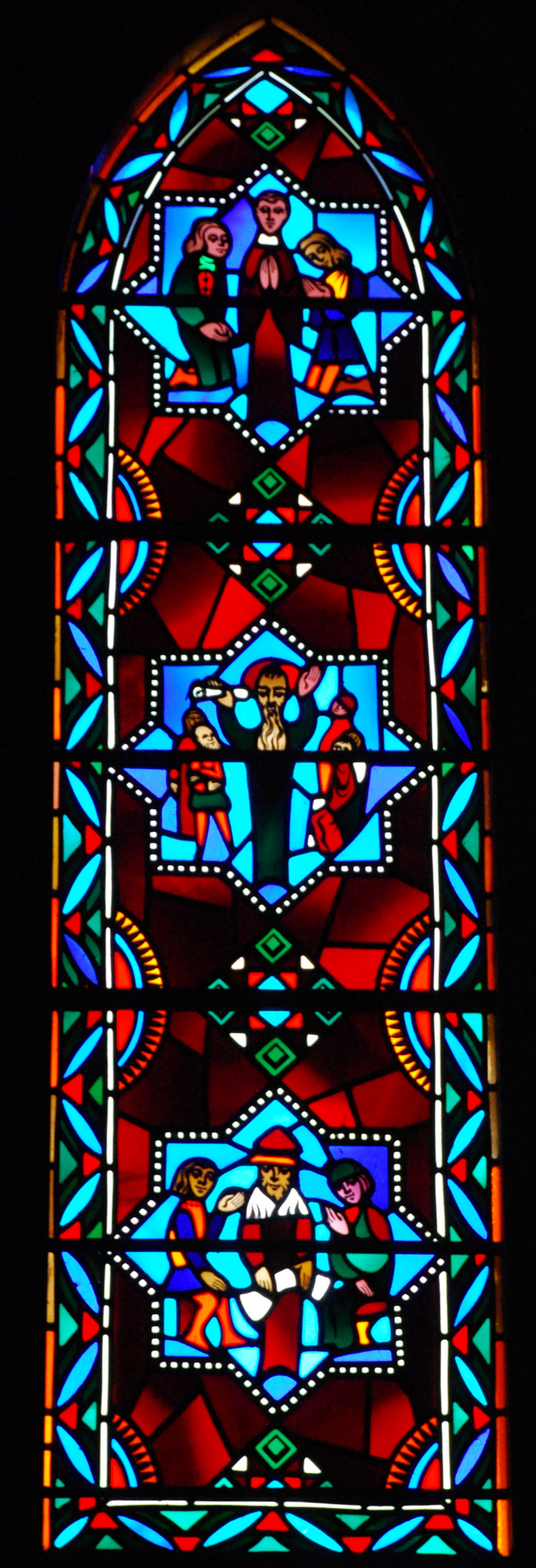 Stain Glass in honor of Andrew Mellon in the National Cathedral